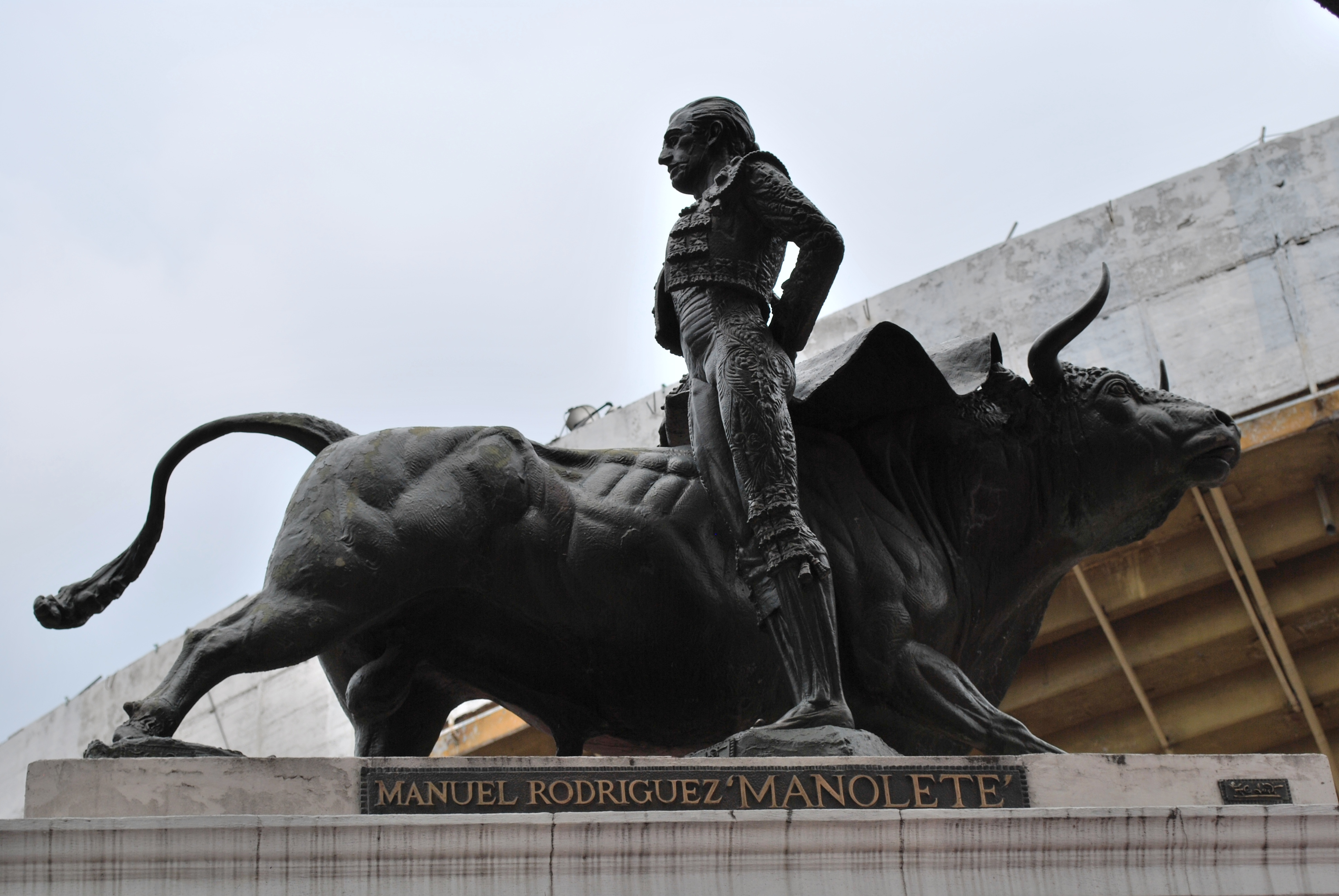 Statue of Manuel Rodriguez at the Plaza de Toros in Mexico City